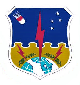 Emblem of the Strategic Air Command 1st Missile Division